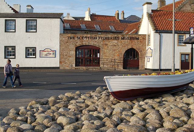 Anstruther Museum There is a lot more to it than what this picture show. Well worth a visit.